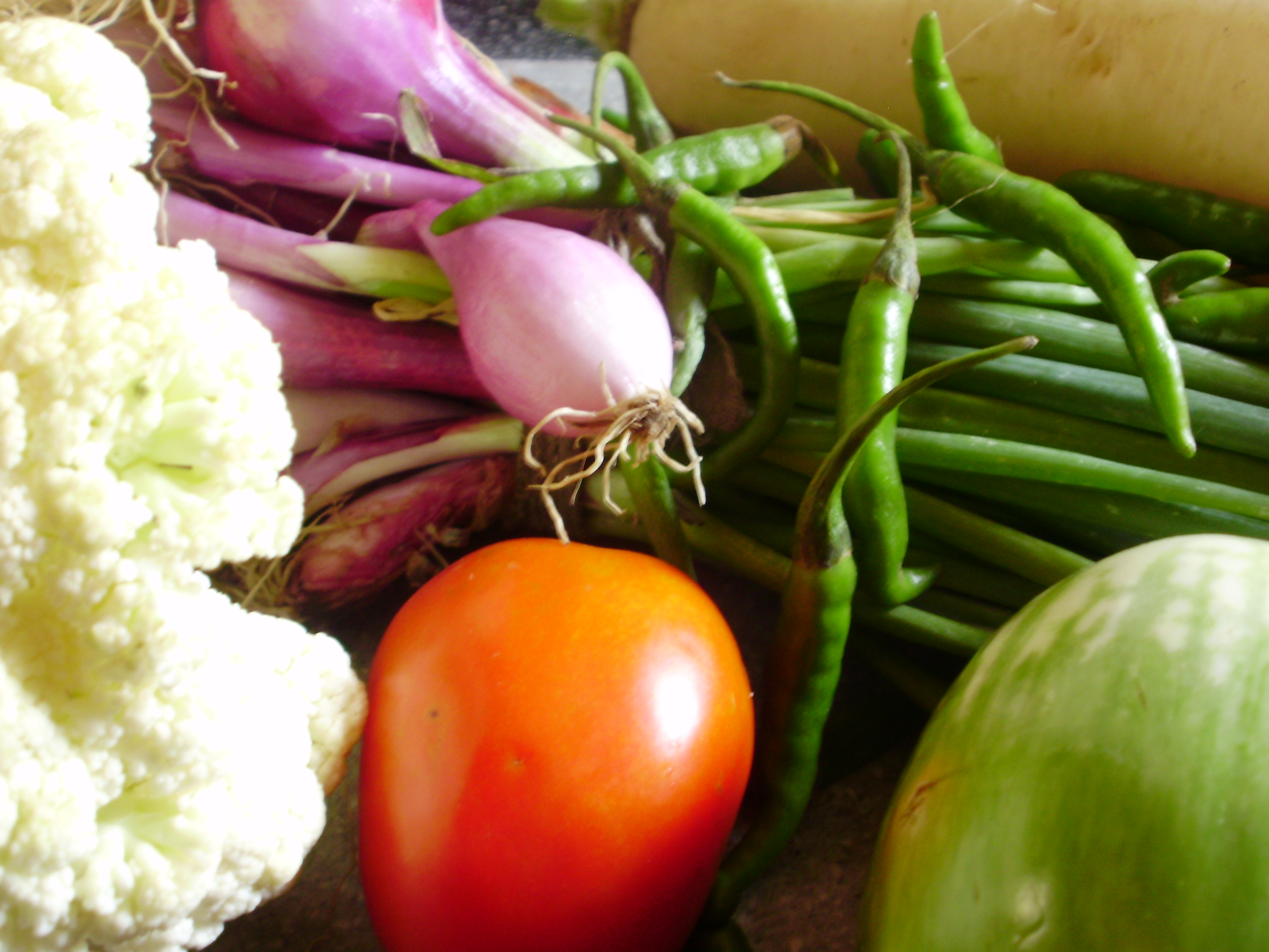 vegetables